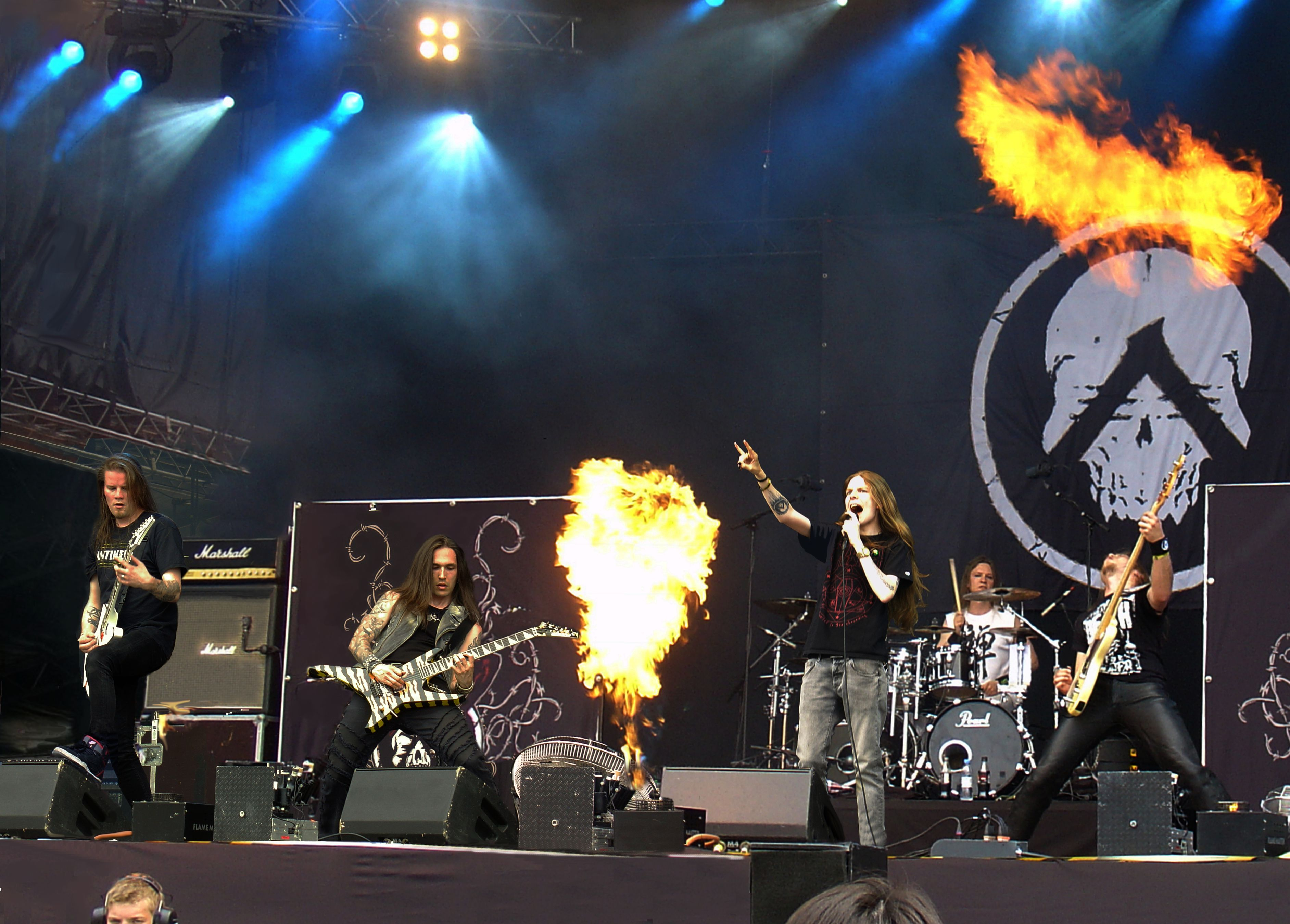 Amoral at Tuska Open Air Metal Festival 2012